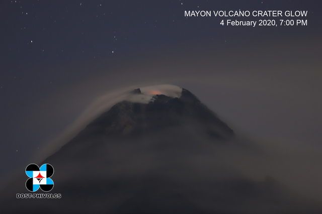 On February 4, 2020, the crater of the Mayon Volcano started to glow orange due to magma being present slightly underneath the surface of the volcano